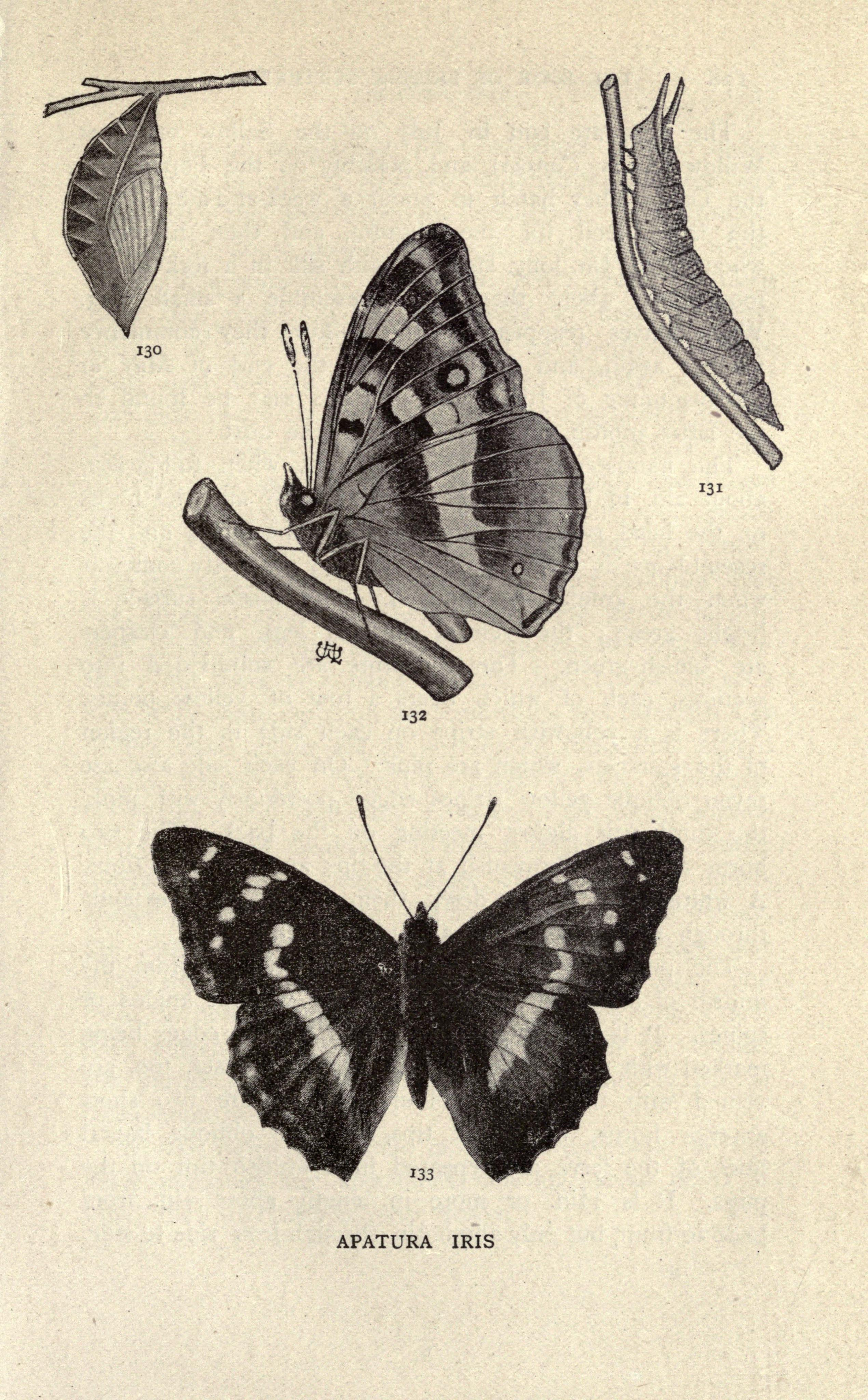 From: W.J. Lucas. (1893). The book of British butterflies : a practical manual for collectors and naturalists. Upcot Gill, London.(With illustrations by the author)